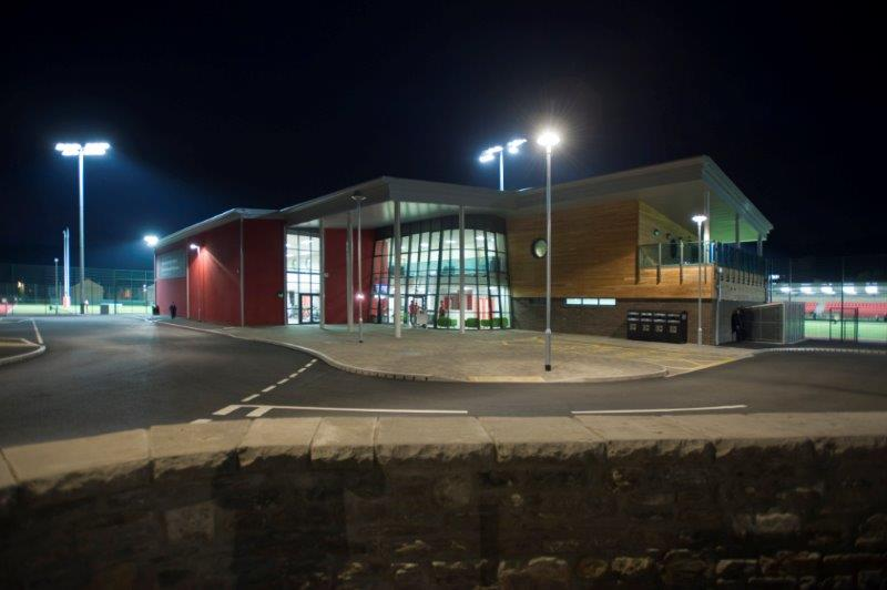 The Front entrance to the CCB Centre for Sporting Excellence taken at night